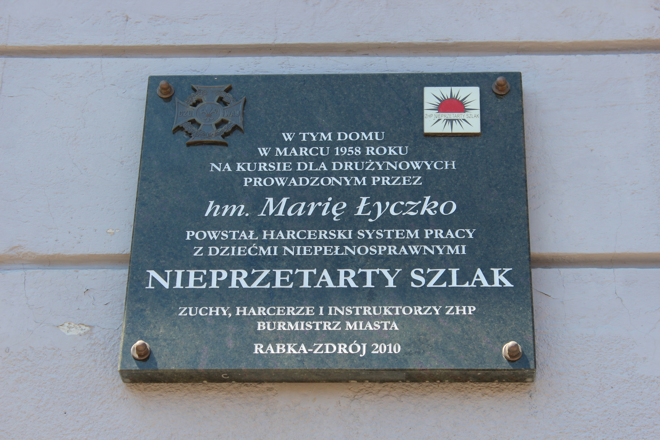 Turbacz Hostel in Rabka-Zdrój